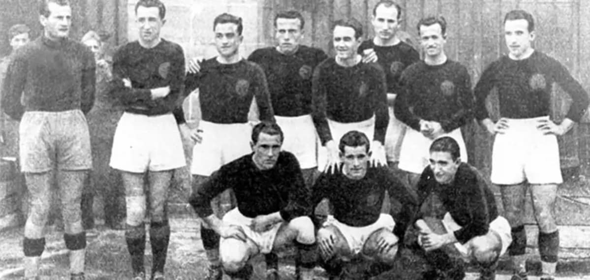 A line-up of A.S. Roma in the 1941–42 season.